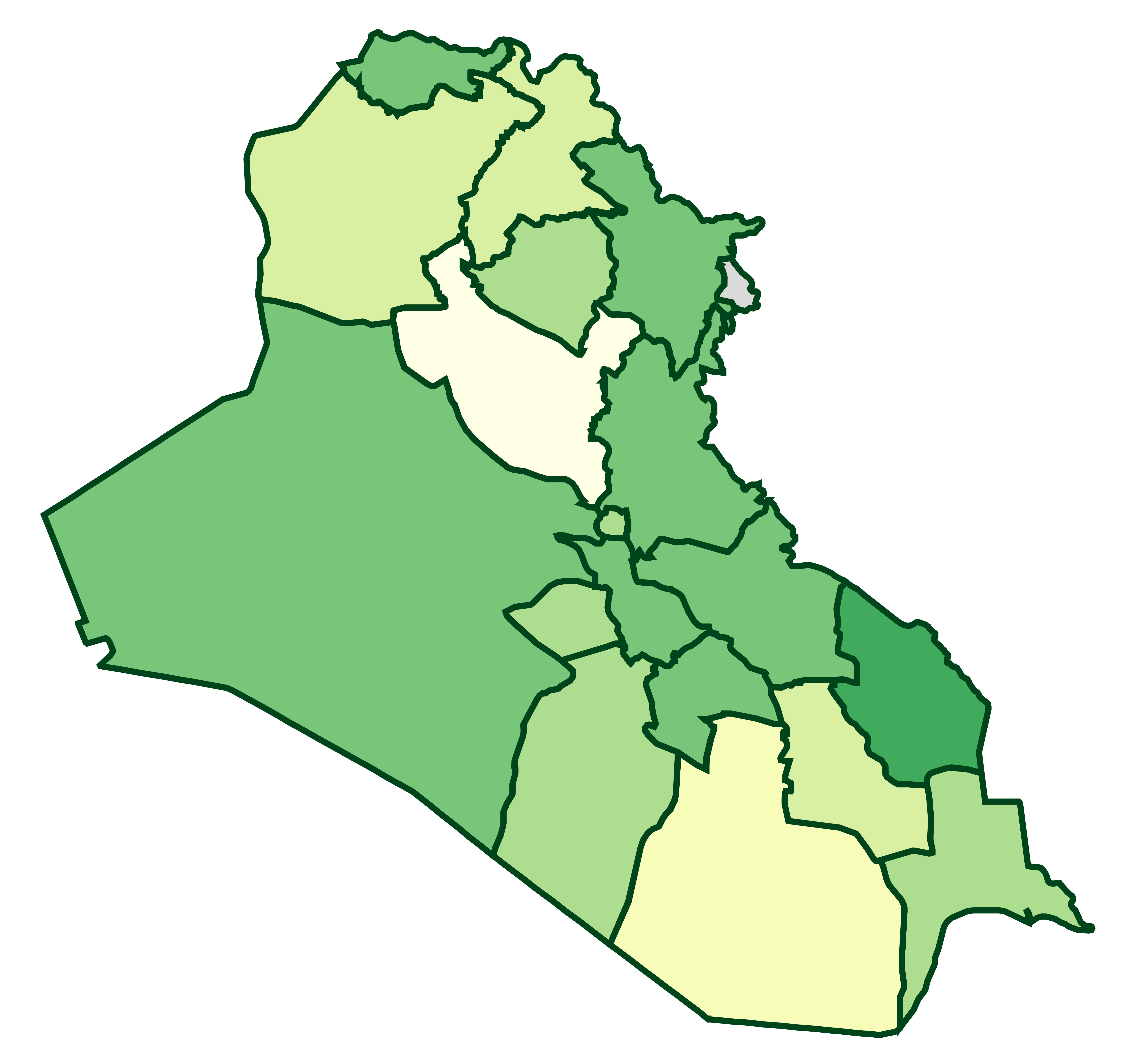 Percentage of inactive cases (including deaths and recoveries) % (Iraq) 0% 1-9% 10-29% 30-49% 50-99% 100%